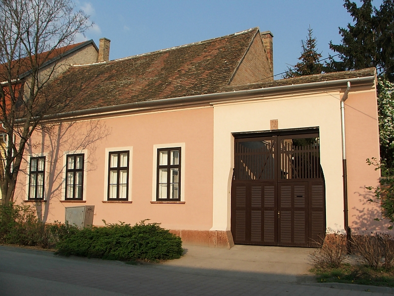 Characteristic big farmhouse in Kocsi street. Tata, Hungary.